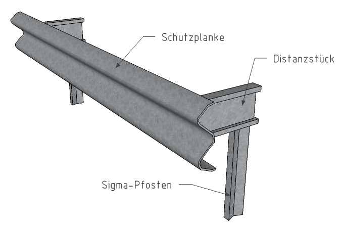 Components of a standard guardrail (A-profile): guardrail, distance piece/spacer, sigma post